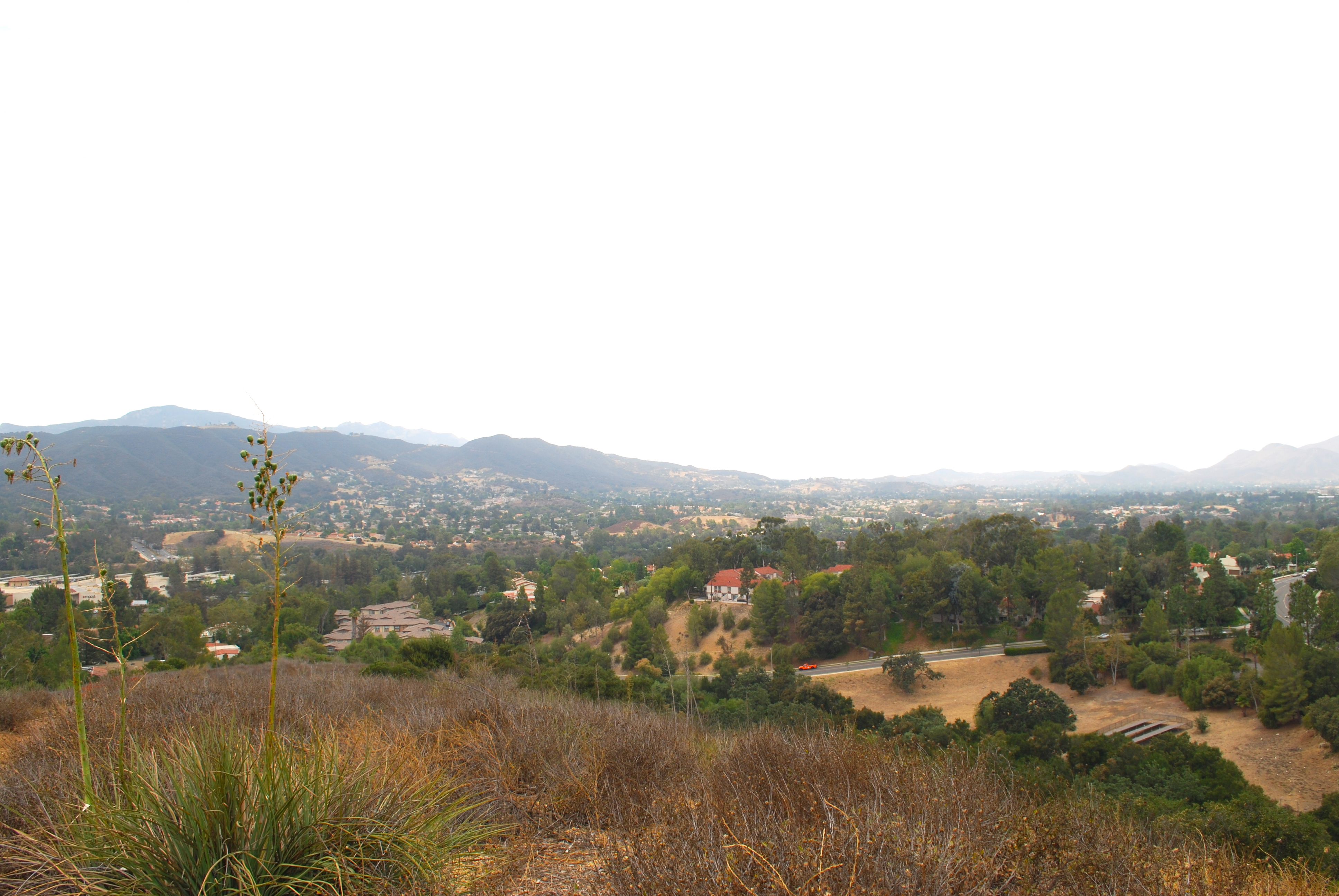 View of Conejo Valley and Santa Monica Mountains from atop Sage Hill in Conejo Valley Botanic Garden, Thousand Oaks, CA.